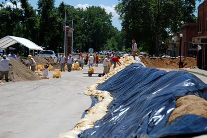 The town of Clarksville, Mo., at river mile 273 on the Upper Mississippi River, prepares the historic downtown area for a siege. Much of the town sits on high ground, but some of the older buildings, including its oldest, sit within striking distance of the Mississippi's rising waters. Photo by George Stringham, U.S. Army Corps of Engineers